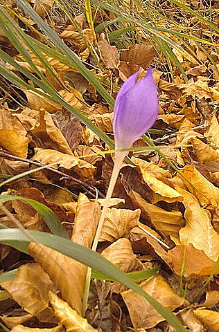 Autum crocus